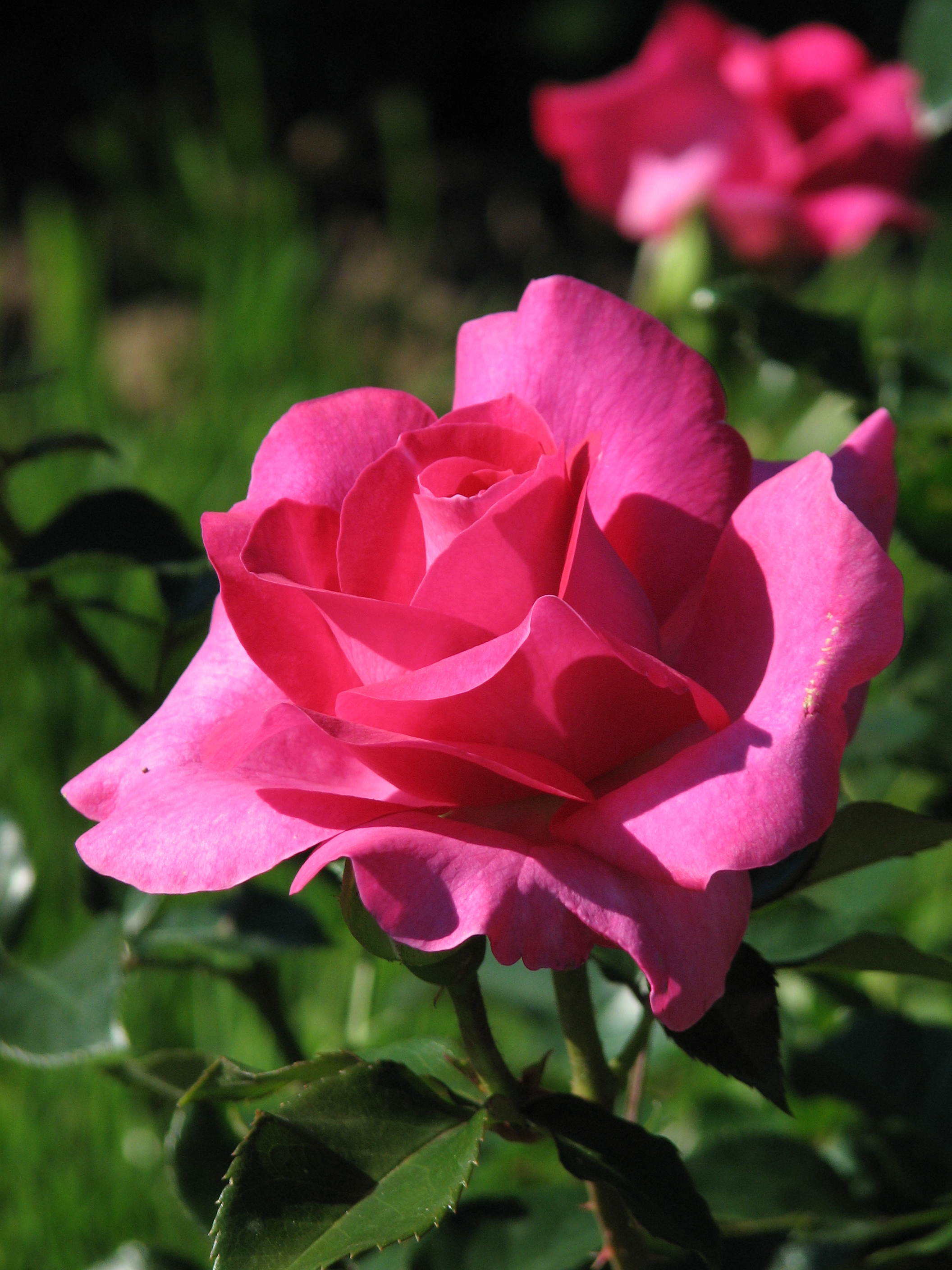 Rosa 'Manou Meilland' (Meilland, 1979). From the collection of the Main Botanical Garden of Academy of Sciences in Moscow (Rosarium).